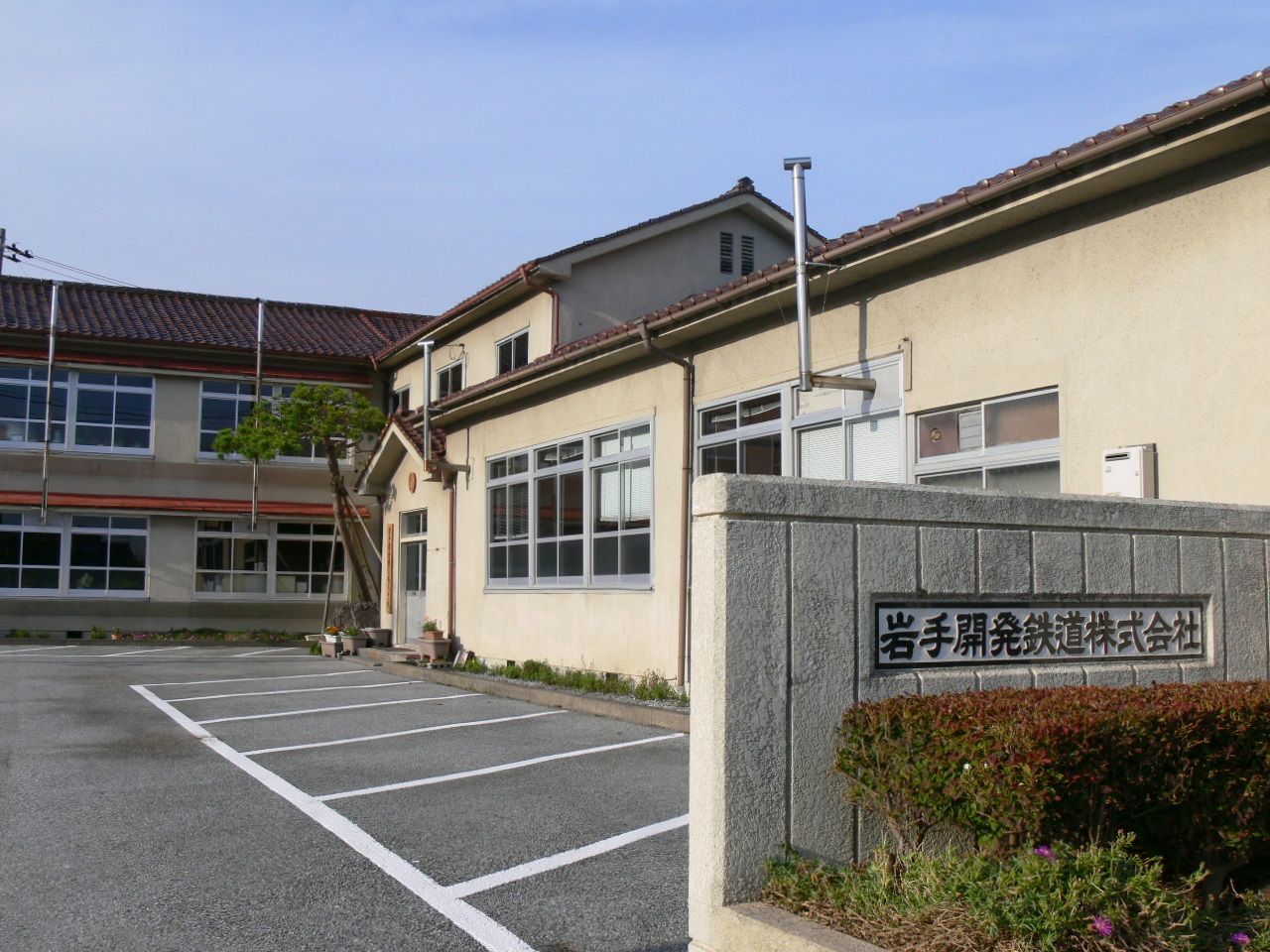 Iwate Development Railway Headquarters（Ofunato city,Iwate,Japan）.